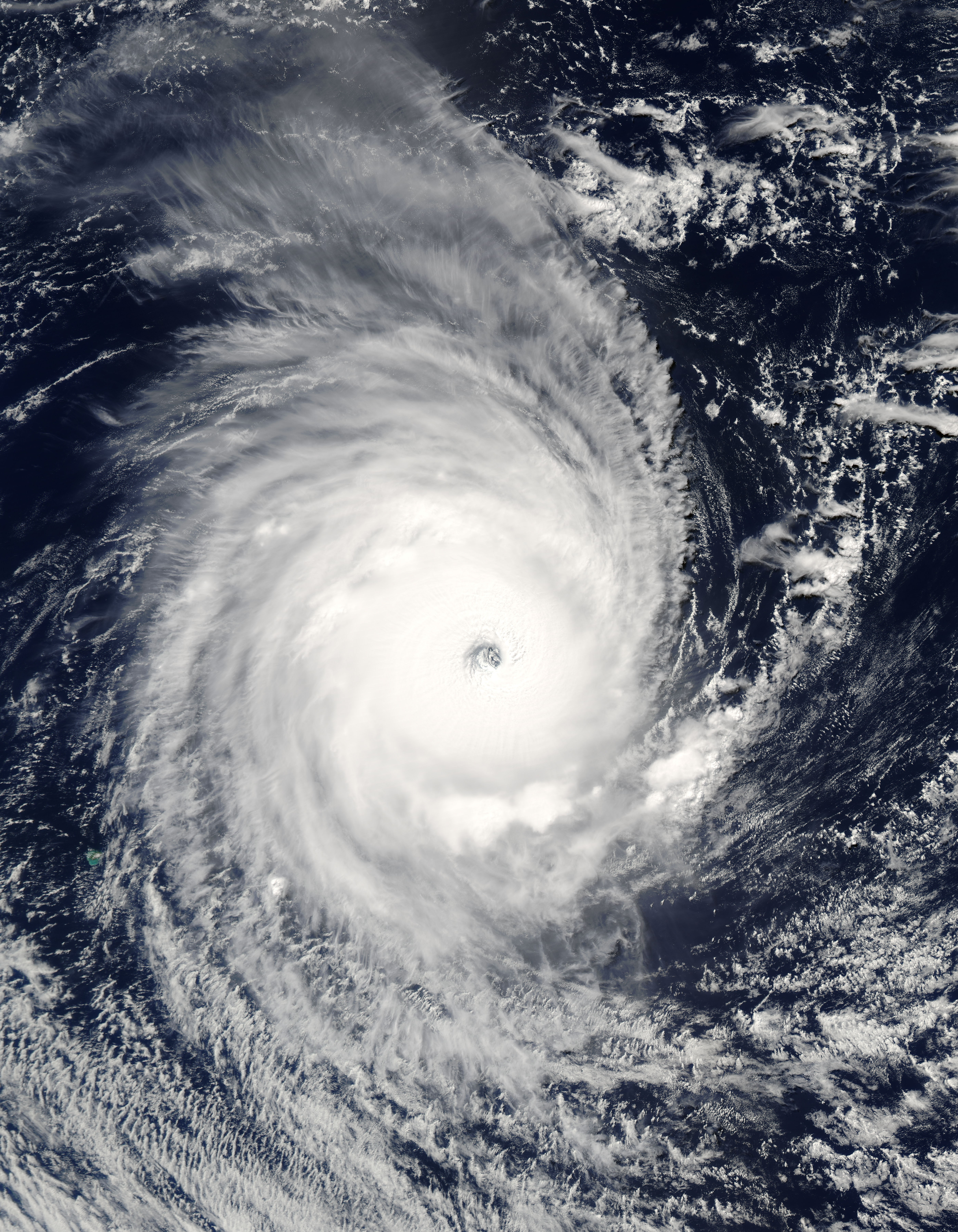 Cyclone Adeline-Juliet re-intensified into a beautifully symmetric swirl of clouds on April 9, 2005. The center of the storm is dominated by a well-formed eye, through which the dark waters of the Indian Ocean are clearly visible. When the Moderate Resolution Imaging Spectroradiometer (MODIS) on NASA’s Aqua satellite captured this image at 08:55 UTC on April 9, the storm had sustained winds around 240 kilometers per hour (150 mph) with gusts to 296 kph (184 mph). Adeline-Juliet degraded after this image was acquired, and by April 12, it was no longer a cyclone-strength storm. The storm never threatened any landmass.